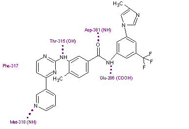 Nilotinib in its binding site. Amino acids with major interactions displayed, dotted lines represent hydrogen bonds.